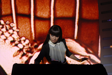 sand animator